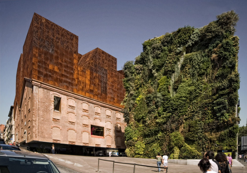 CaixaForum Building in Madrid, rehabilitation by Herzog & De Meuron.